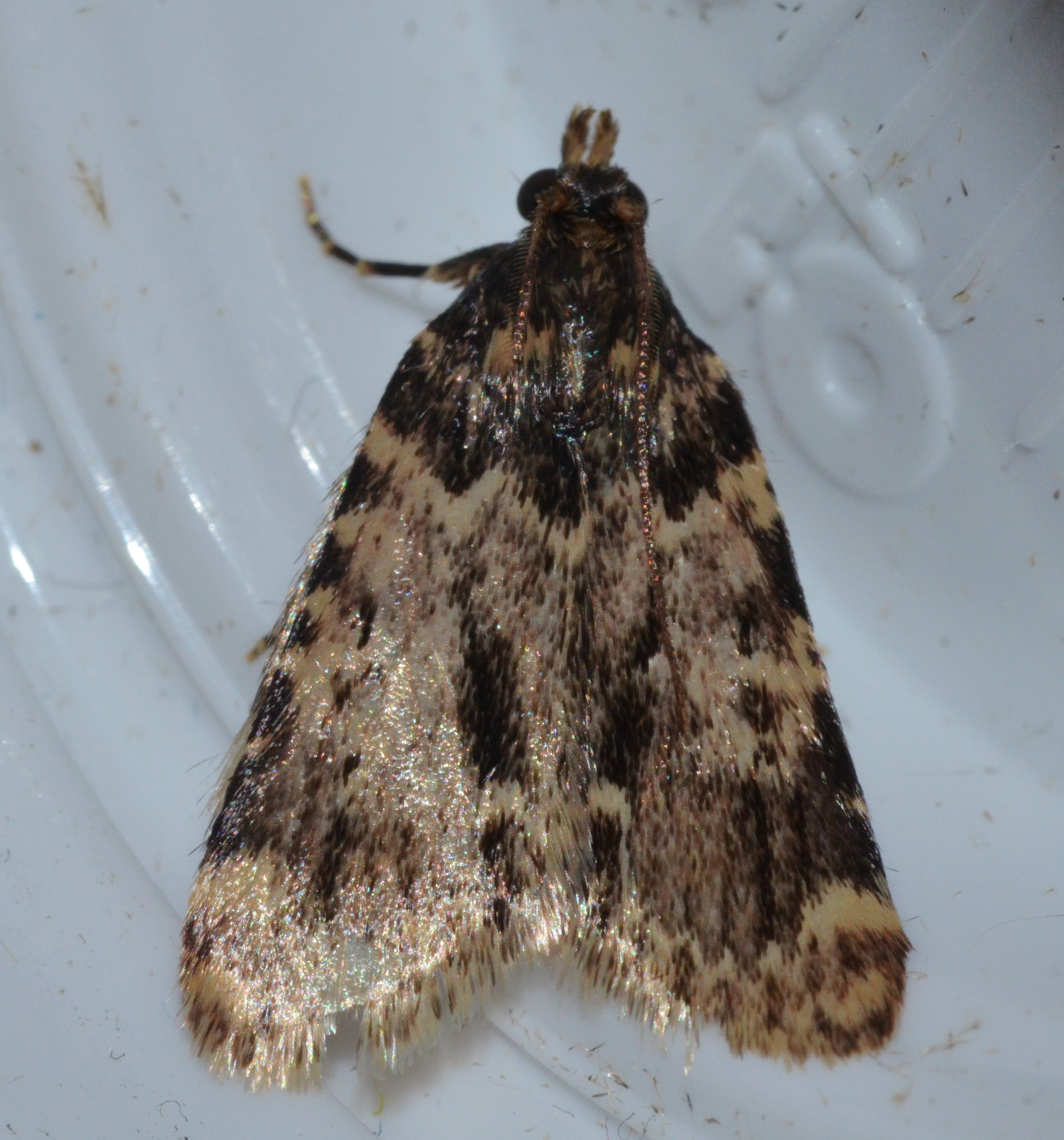 6/8/14 Paul Dennehy gave me the genus. Whew.